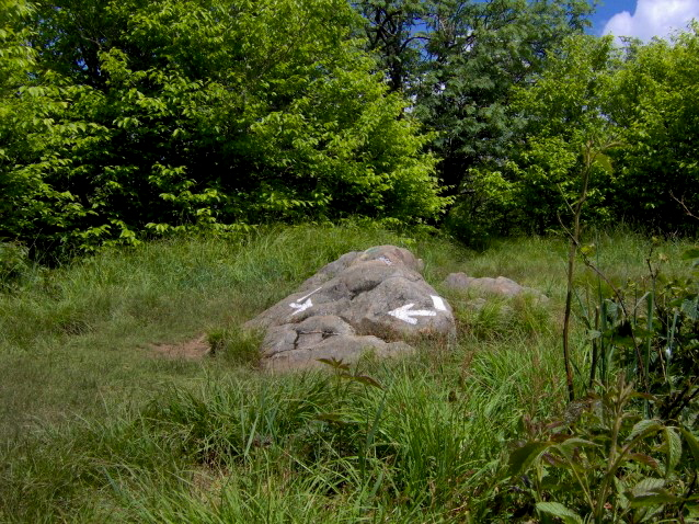 The summit of Silers Bald (el. 5607 feet/1,709 meters) in the Great Smoky Mountains. The white arrows mark the direction of the Appalachian Trail, which makes a 90-degree turn.